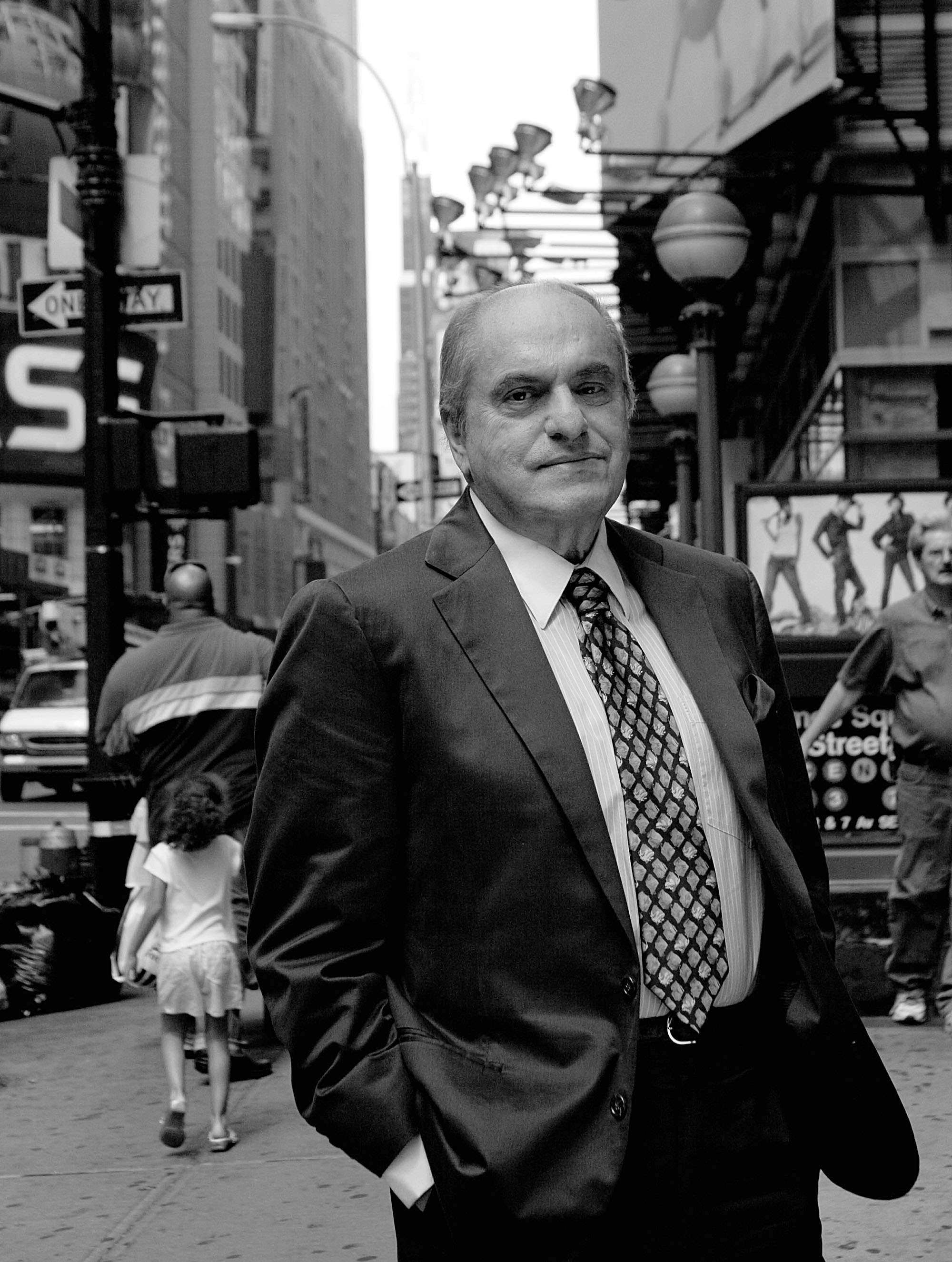 Photo of Leon Charney in Times Square, New York